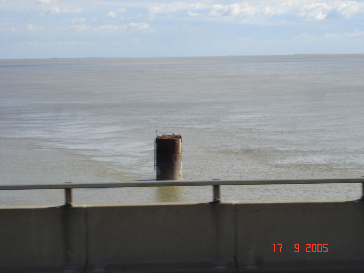 Photos of Jamuna Multipurpose Bridge, taken from train. Location: Shirajgonj. One of the test steel tubes used later for grounding the bridge.